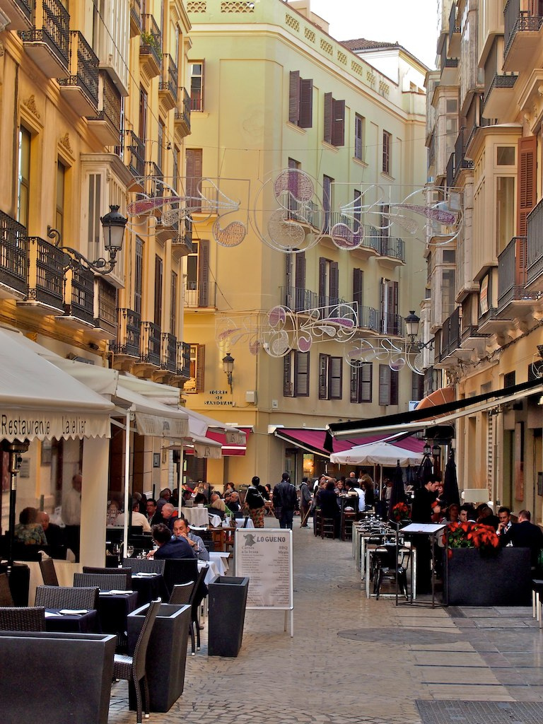 Strachan Street, Malaga, Spain.